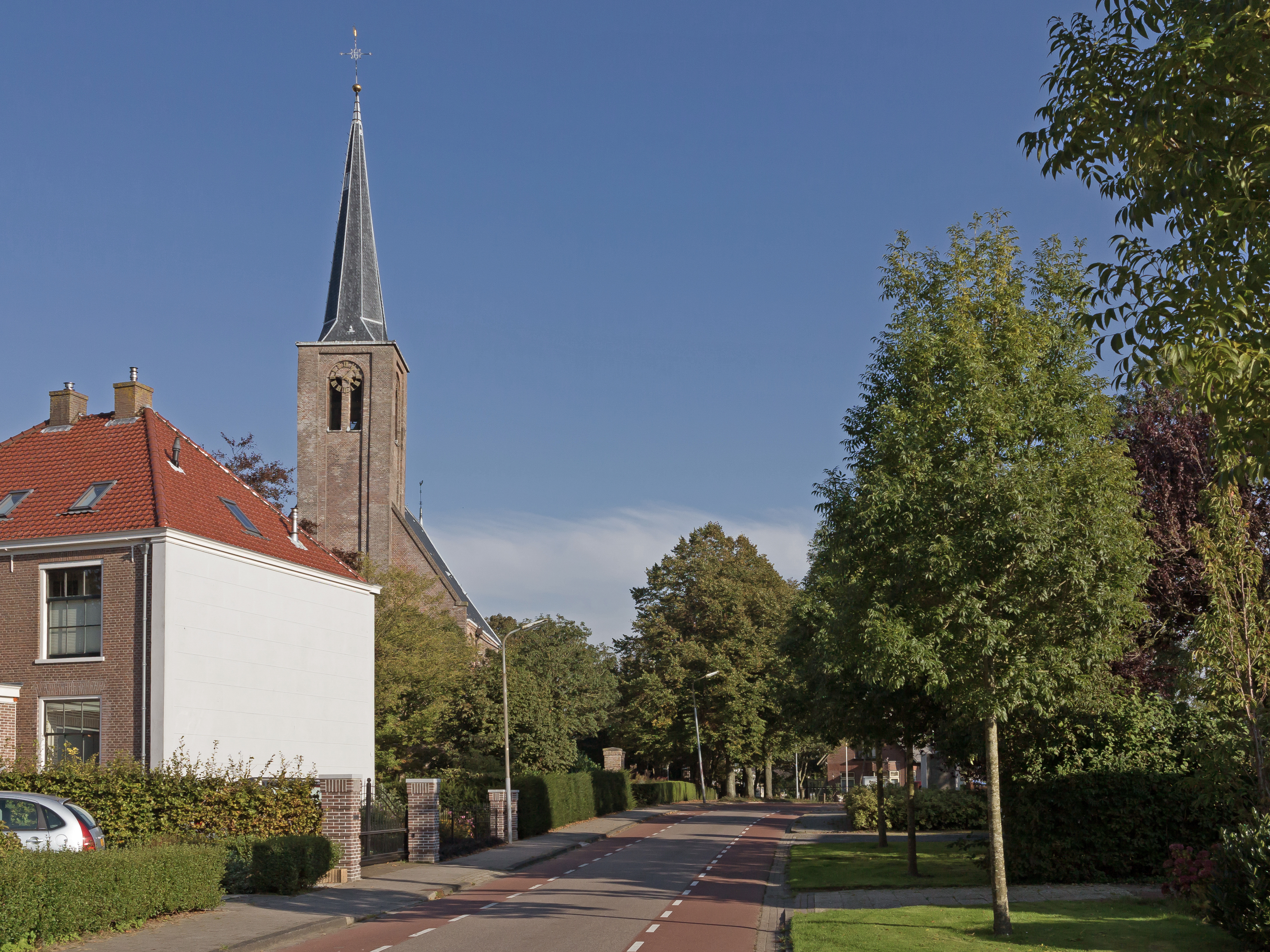 Hensbroek, churchtower